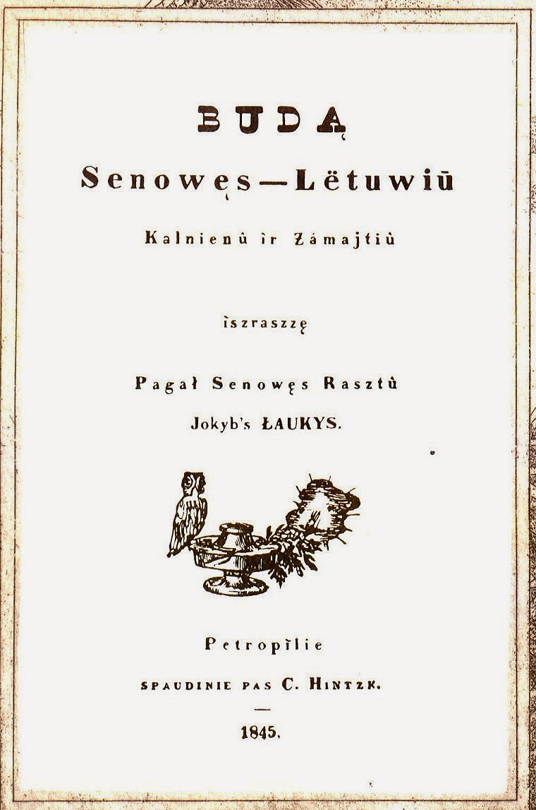 a titlepage of the book: "Simonas Daukantas. Būdas senovės lietuvių, kalnėnų ir žemaičių (1845)"